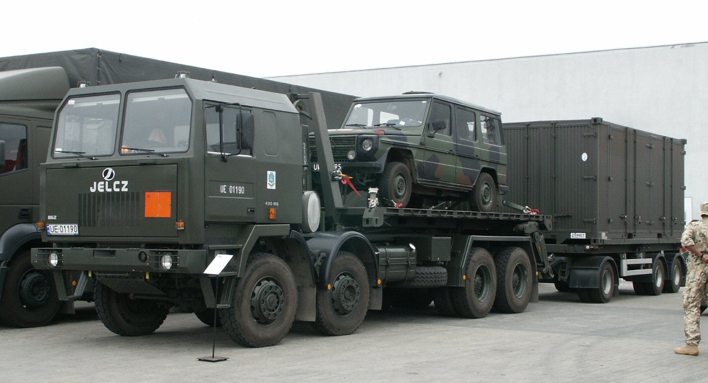 Polish Army Jelcz P862D.43 truck.